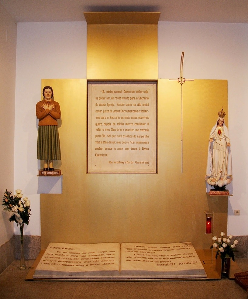 Tomb of Alexandrina Maria da Costa in Balazar (Póvoa de Varzim).